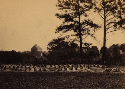 A series of tombstones was installed at Washington Race Course in Charleston, South Carolina, marking the burial places of over one hundred Union soldiers.